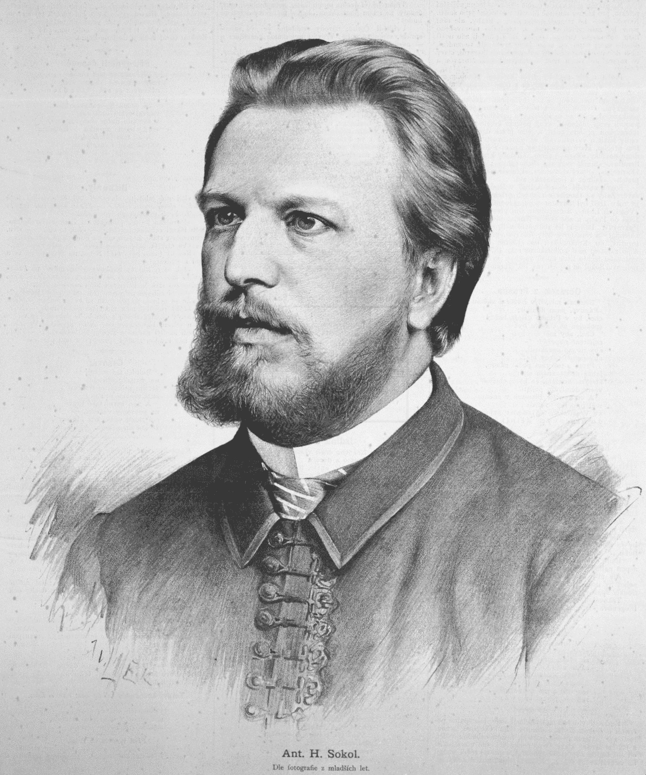 Antonín Sokol, writer